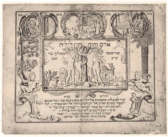 A Charm for a birthing mother